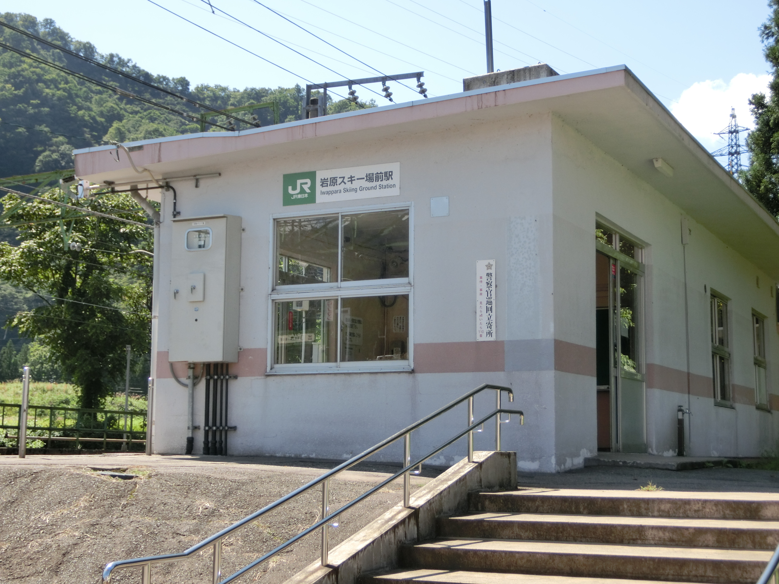 Iwappara-Skiing Ground Station